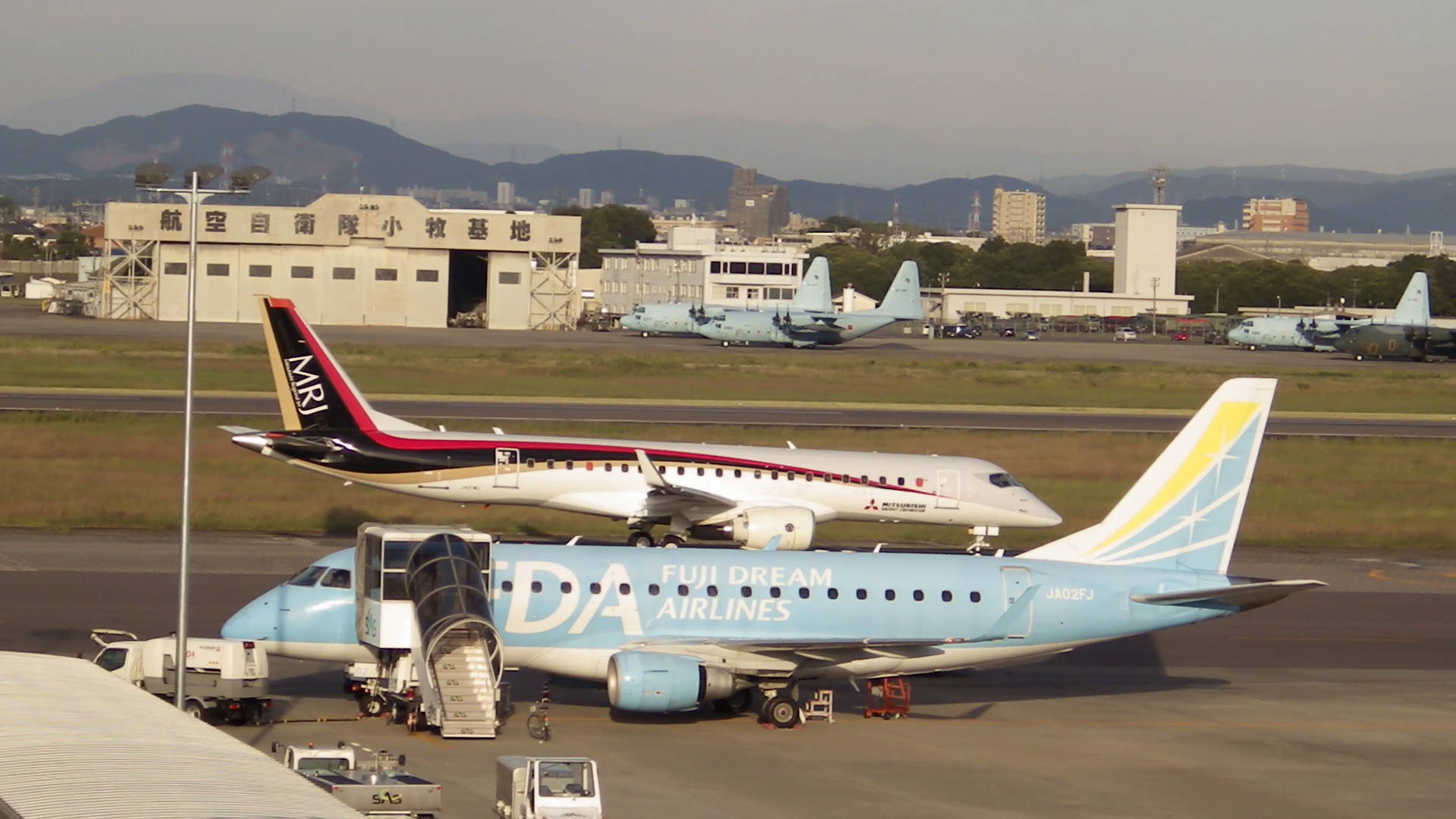 PHOTO OF MITSUBISHI REGIONAL JET AND EMBRAER ERJ-175STD AT NAGOYA AIR PORT.